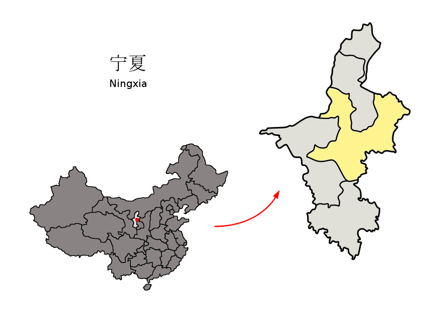 Location of Wuzhong Prefecture (yellow) within Ningxia Autonomous Region of China Map drawn in november 2007 using various sources, mainly : Ningxia Autonomous Region administrative regions GIS data: 1:1M, County level, 1990 Ningxia Counties map from This map includes Zhongwei jurisdiction not shown on sources, and the related changes in Guyuan and Wuzhong jurisdictions borders.